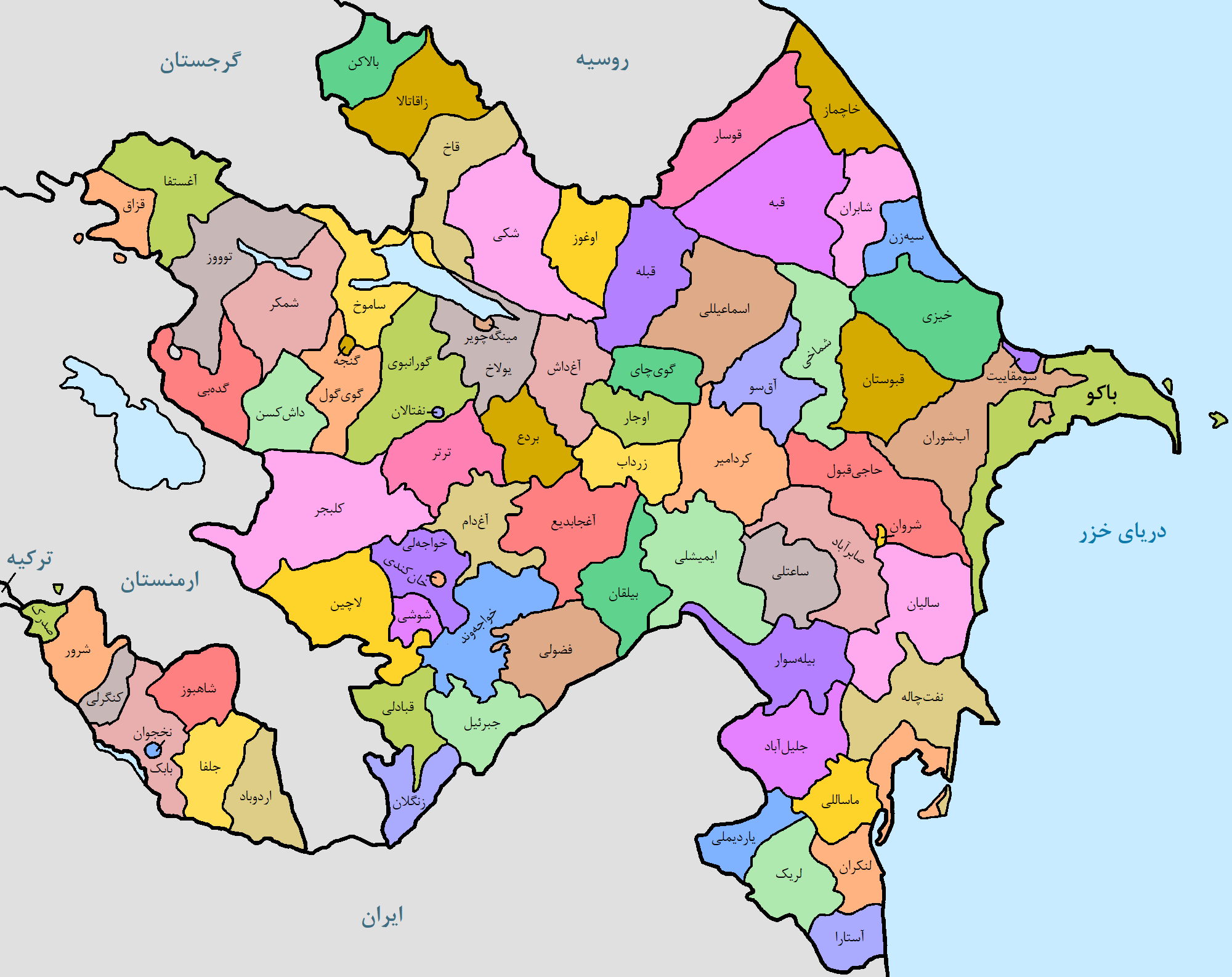 Rayons of the Republic of Azerbaijan